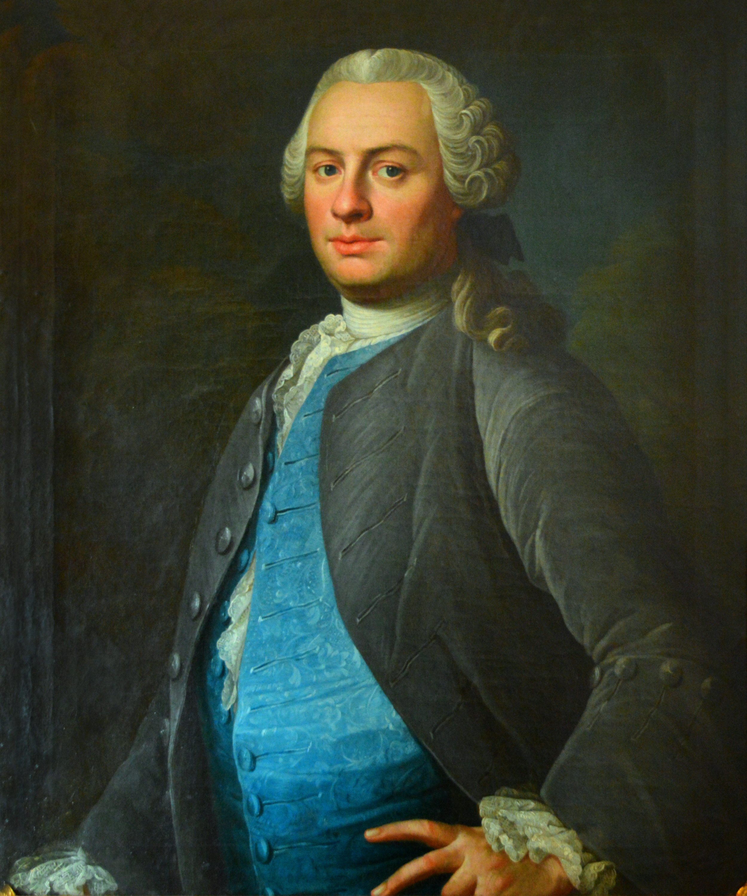 Portrait of Jonas Gren, Swedish